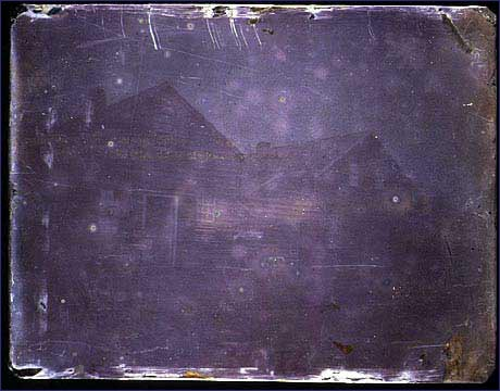 Early color photograph (a Hillotype) by Levi Hill, c. 1850